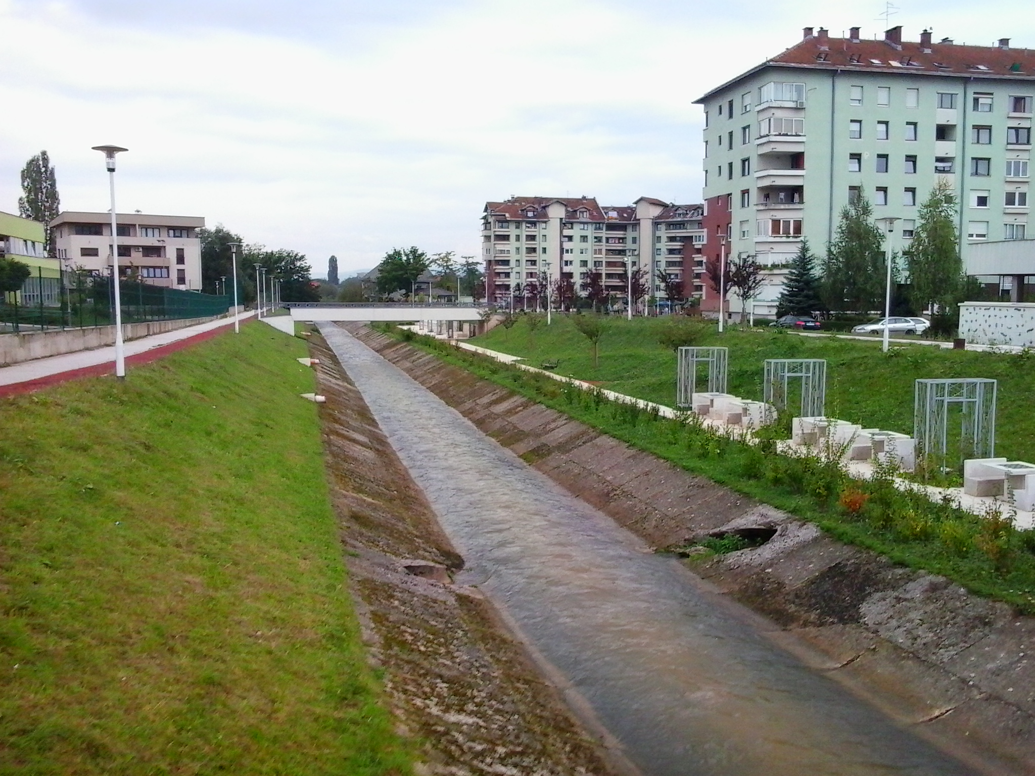 Tenement houses in Sarajevo